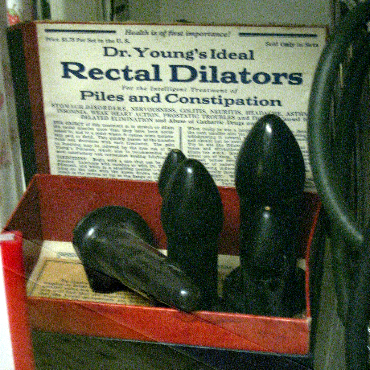 Retouched version of File:Glore Psychiatric Museum - Rectal Dilators.jpg, adjusted to reduce visibility of reflection in glass, showing a set of Dr. Young's Ideal Rectal Dilators. This is a retouched picture, which means that it has been digitally altered from its original version. Modifications: adjusted to reduce visibility of reflection in glass.